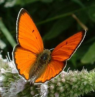 Lycaena dispar large copper, male. Vantoux-et-Longevelle 70700 France.